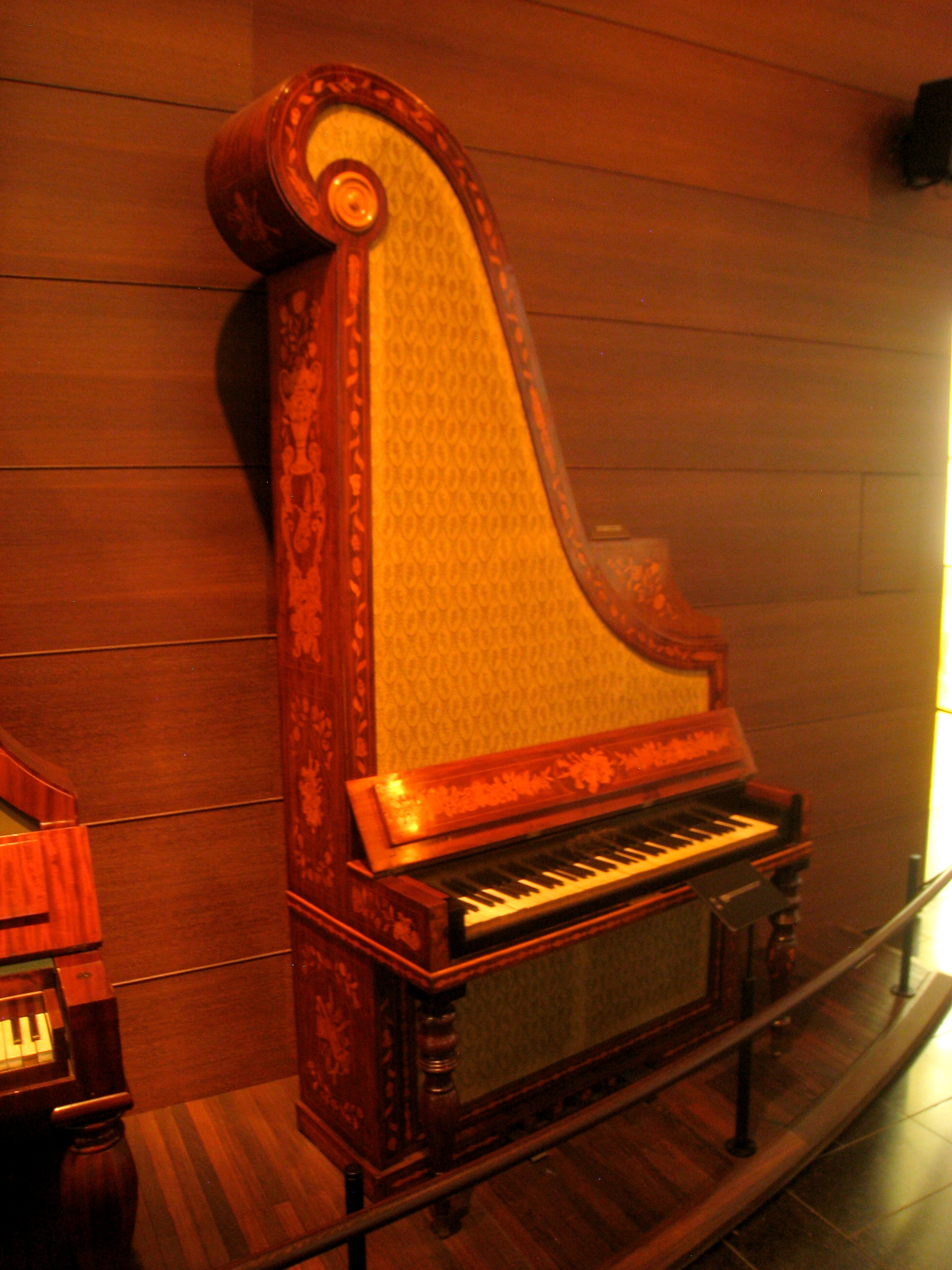 Piano collection in the Musical Instrument Museum, Brussels, Belgium. Johannes Van Raay and son, Amsterdam, ca. 1835.